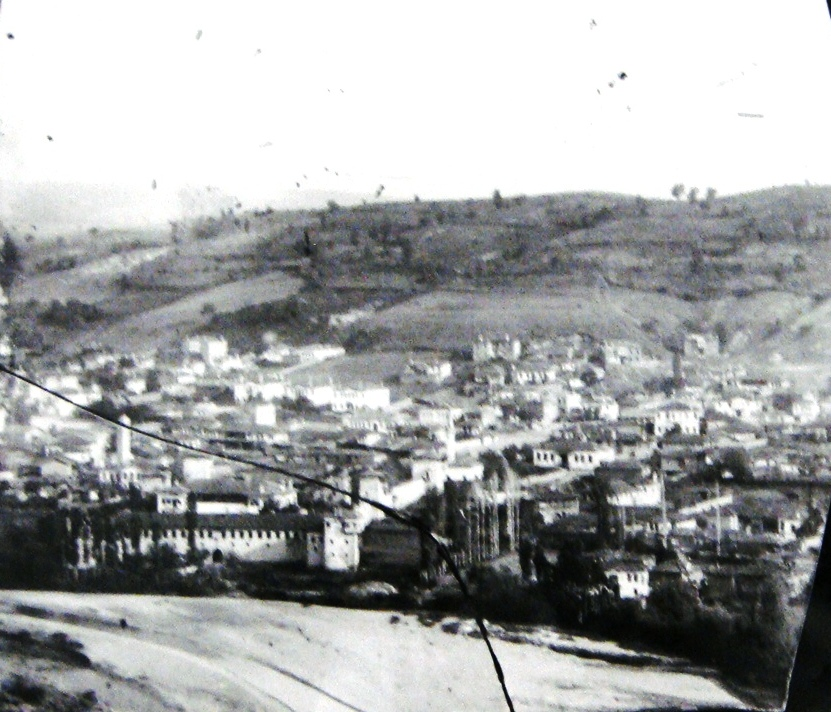 Panorama of the city of Grevena with sarai of Veli Bey. 1900 (Broken glass plate) This media file is produced by Wikipedian in Residence in Category:Wikipedian in Residence at DARM in 2016.